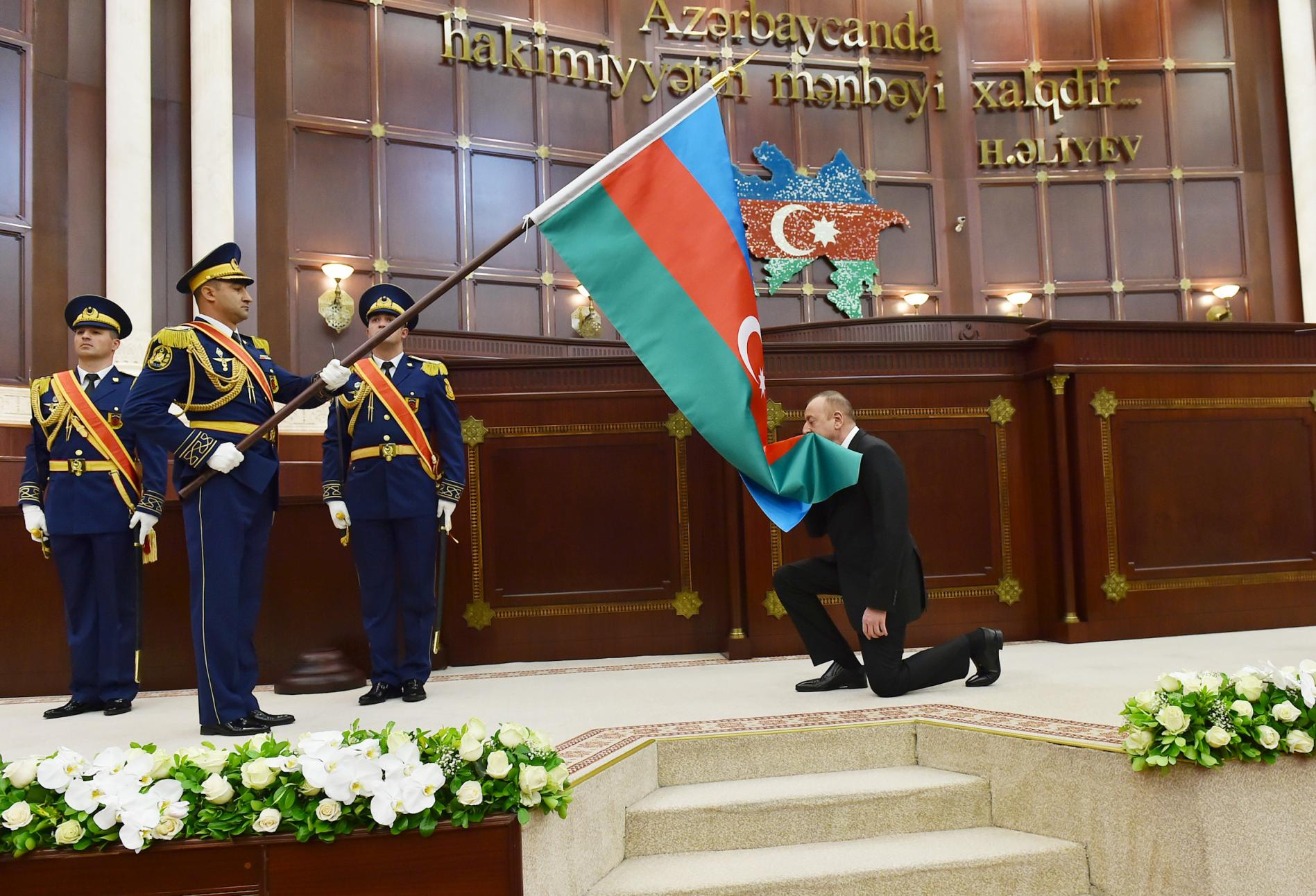 Inauguration ceremony of President Ilham Aliyev held 2018